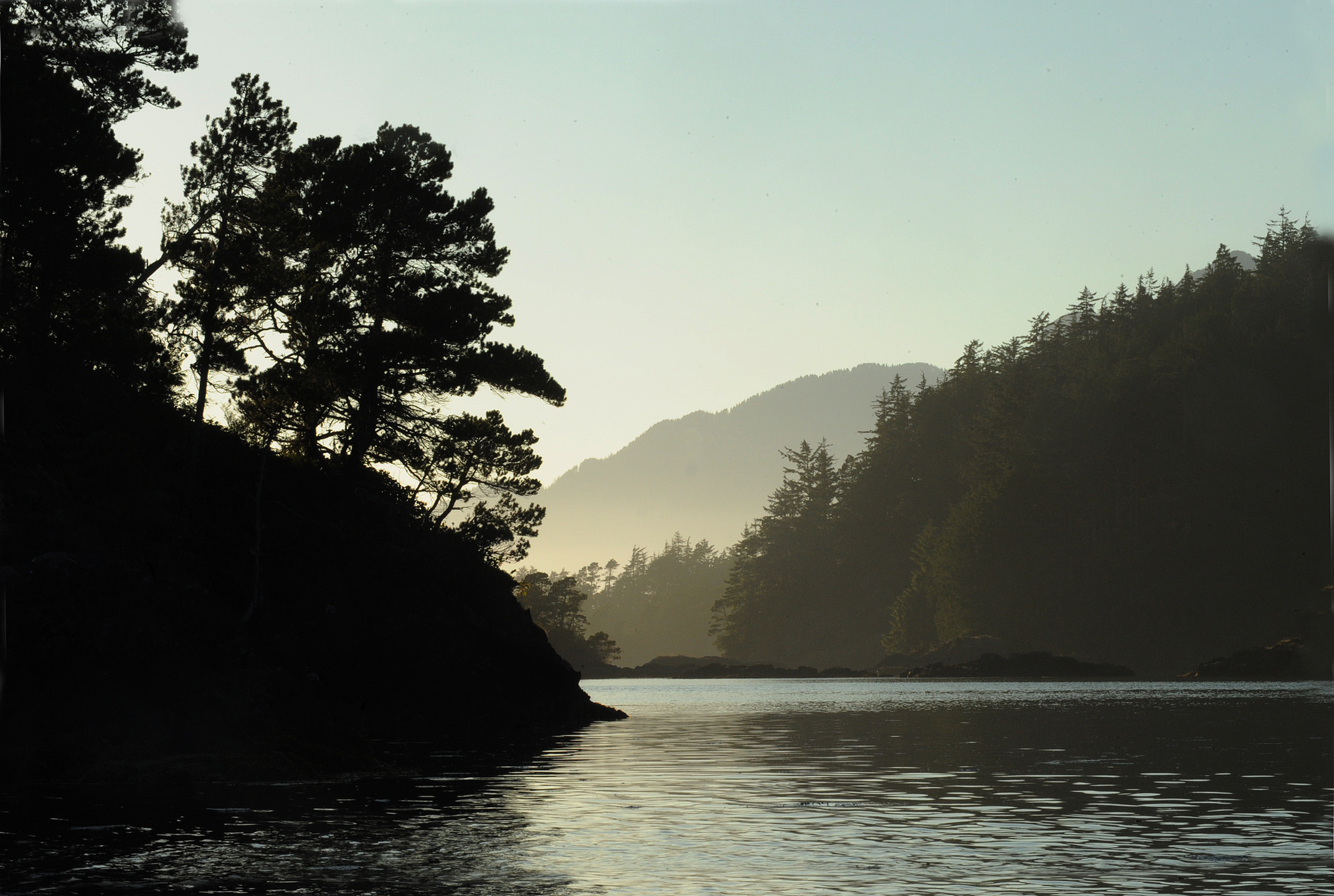 Calm anchorage on the very edge of the wild Pacific Ocean. The protected waterways of the Nuchatlitz Provincial Marine Park. Vancouver Island BC This photo was taken in a protected area in Canada, Wikidata item Nuchatlitz Provincial Park (Q7067894)